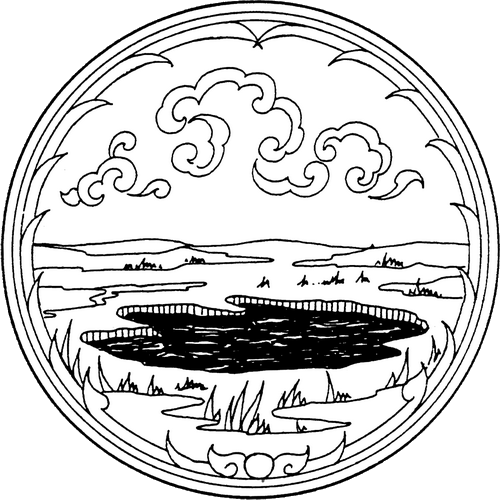 Provincial seal of Kalasin province.